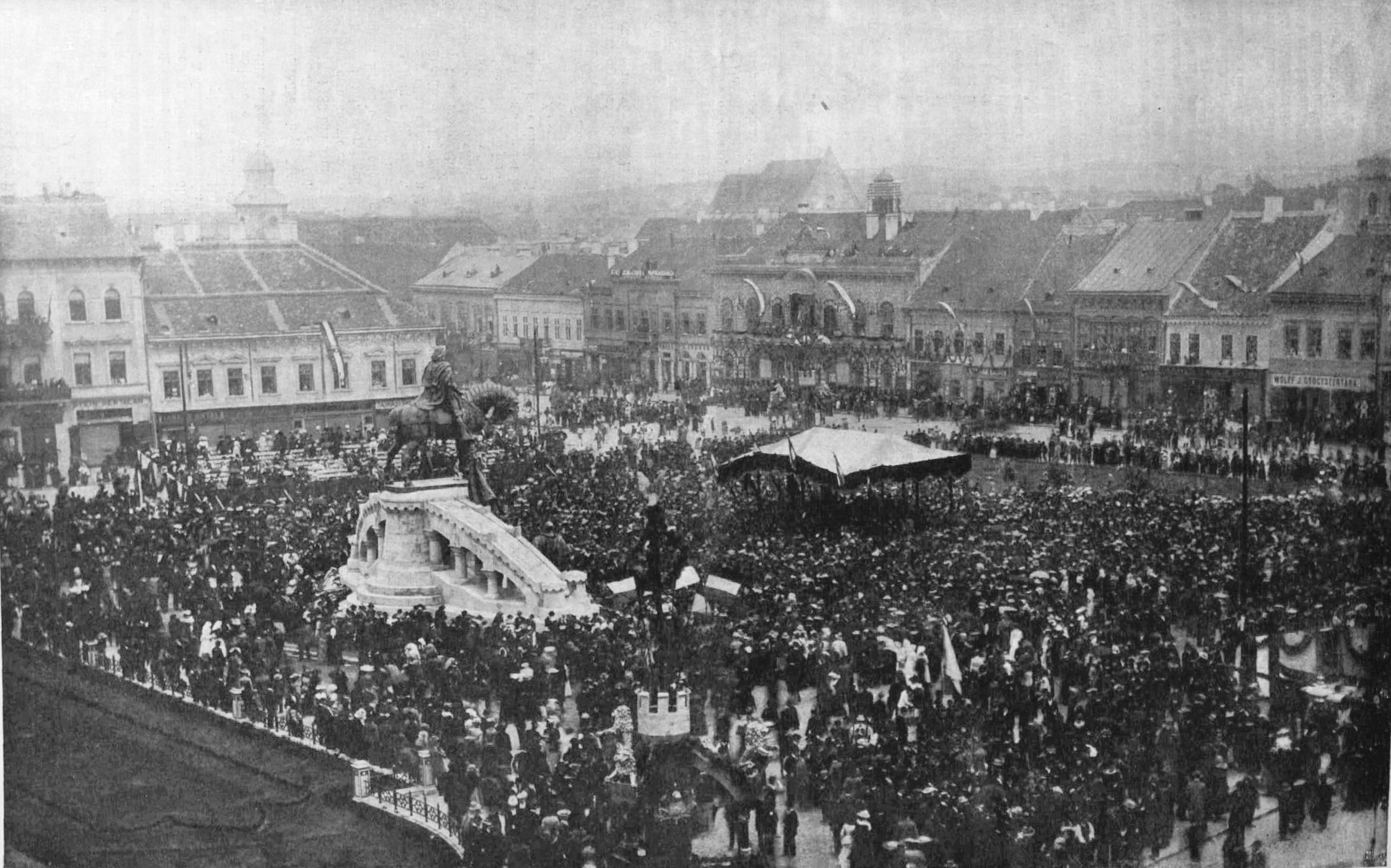 The inauguration of the Matthias Corvinus Statue, Cluj, 1902